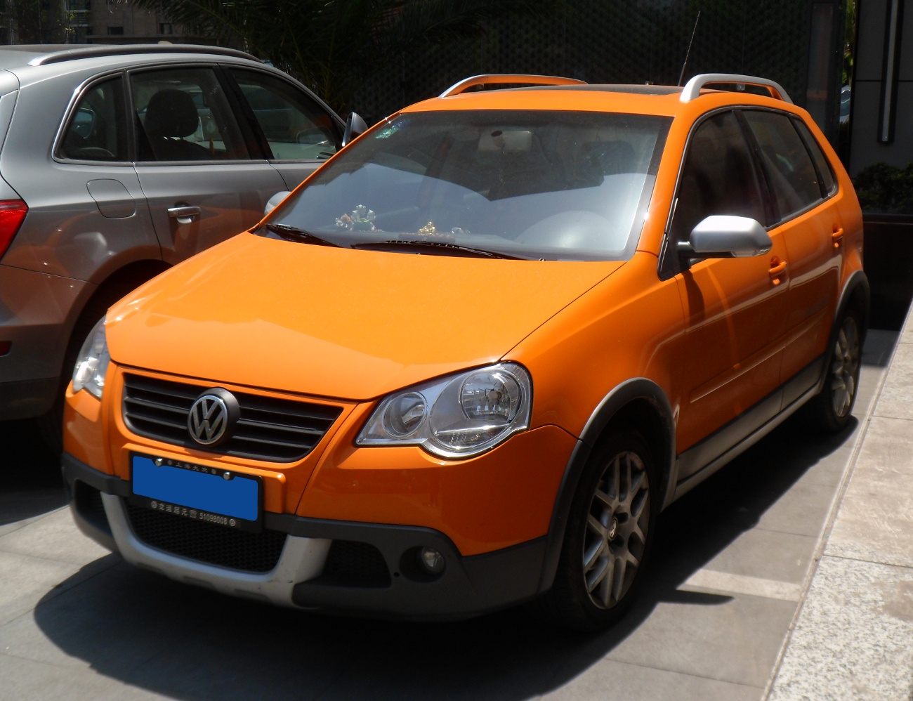 Volkswagen CrossPolo photographed in Shanghai, China.